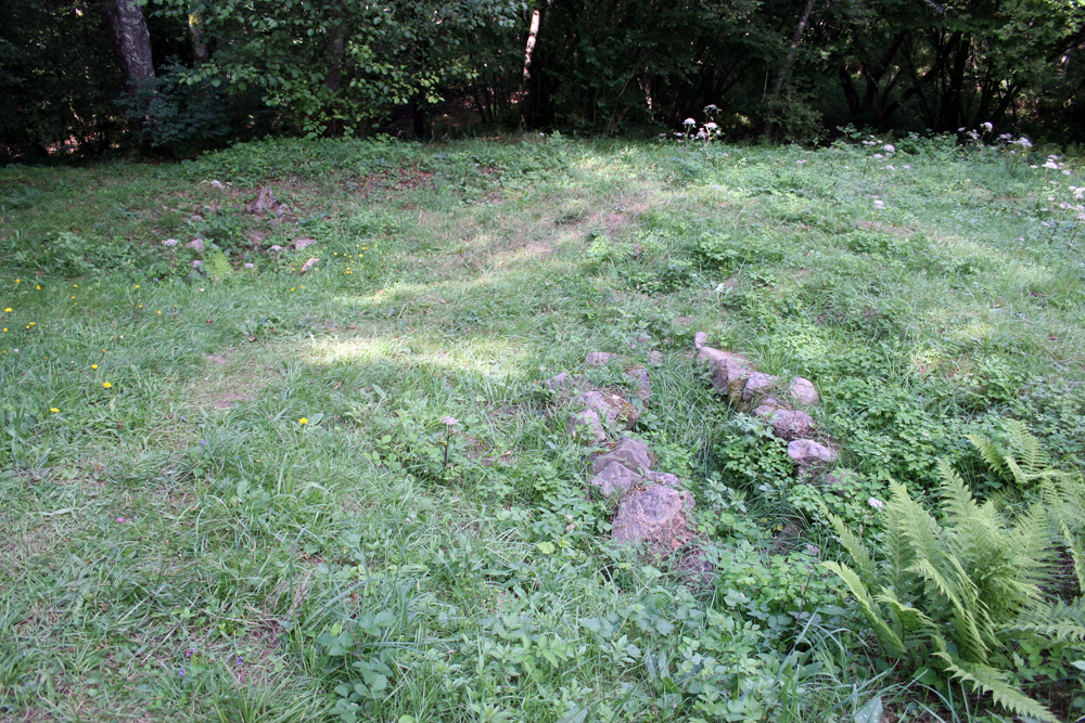 trench and "tomb" on the controversial Glozel site, Ferrières-sur-Sichon, France